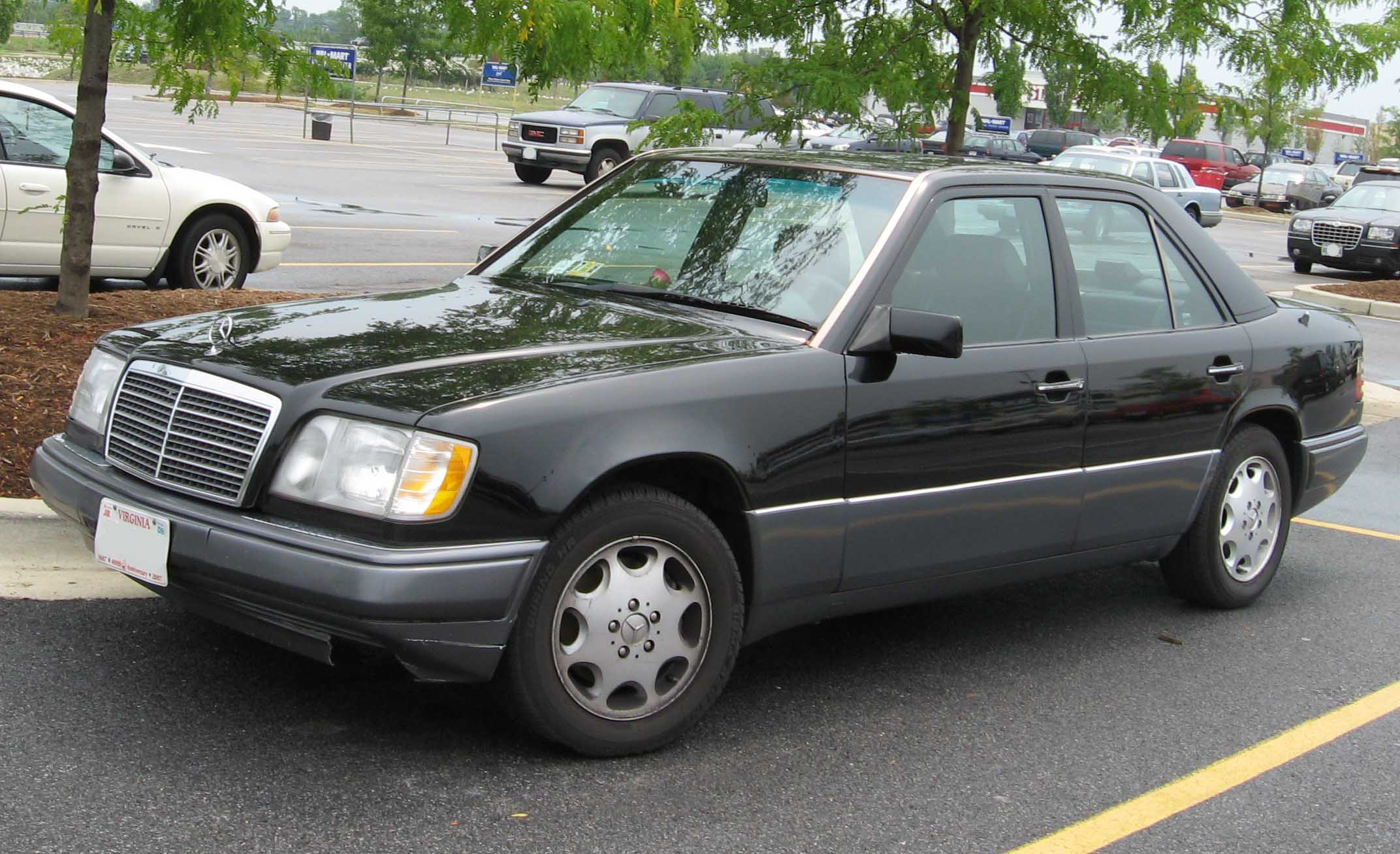 1993-1995 Mercedes-Benz E-Class photographed in USA.